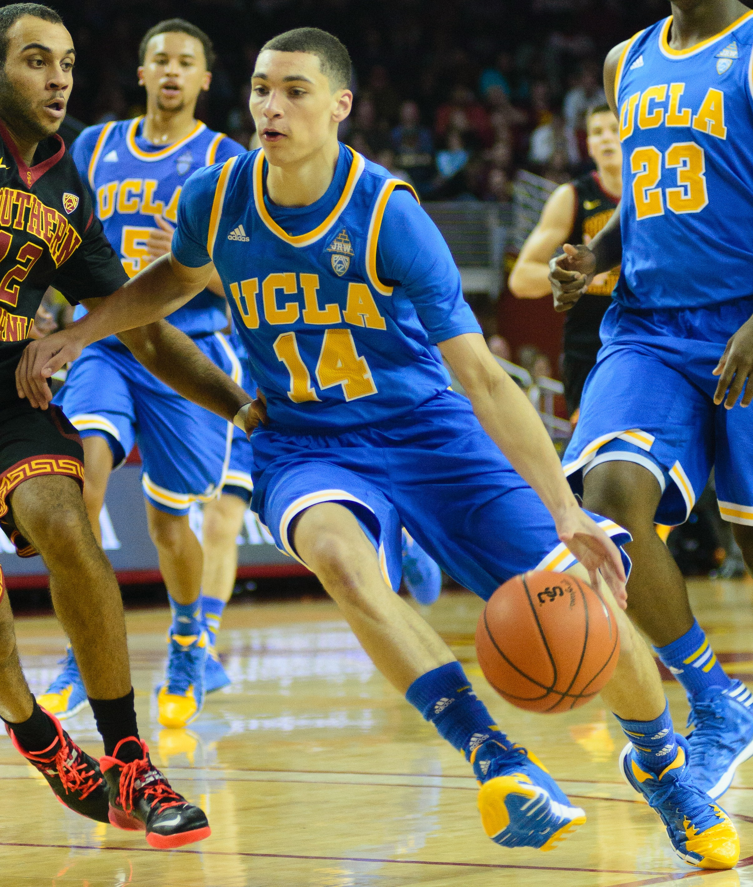 Zach Lavine of UCLA Bruins against USC Trojans